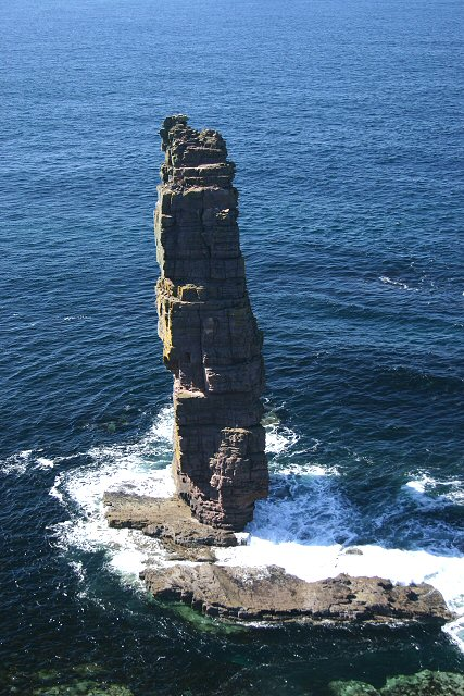 Am Buachaille